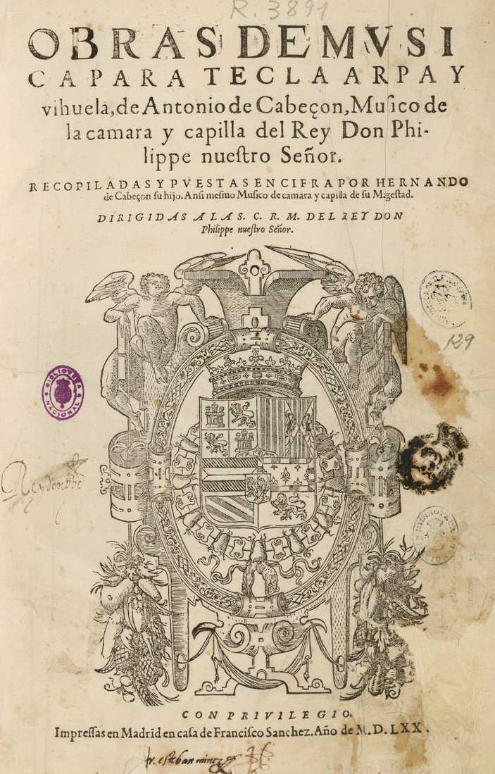 Title page of Obras de música para tecla, arpa y vihuela (Madrid, 1578), a collection of music by Antonio de Cabezón (c. 1510–1566), published posthumously by his son Hernando de Cabezón.